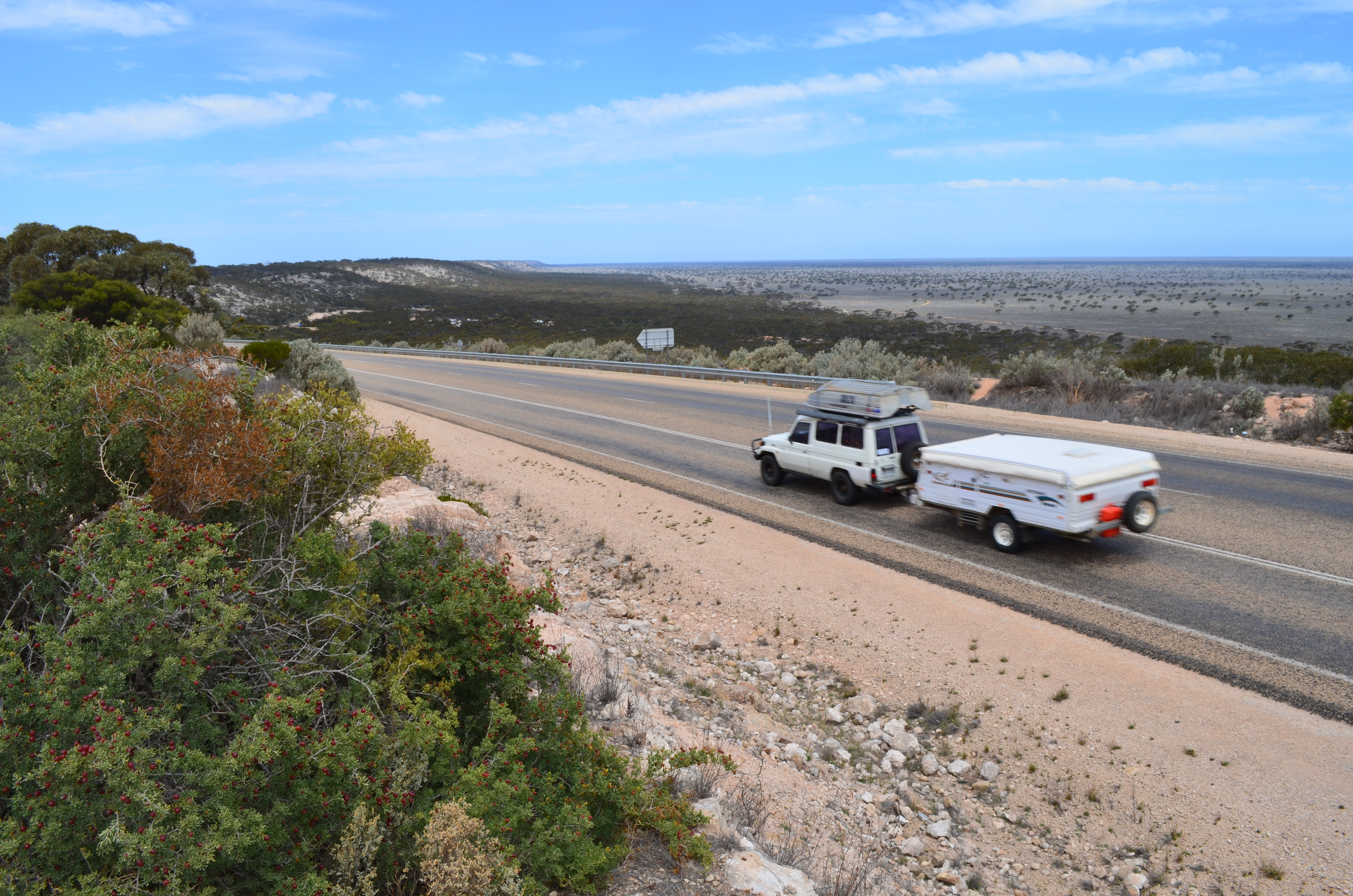 View of the Madura Pass on the Eyre Highway, Western Australia. At the foot of the escarpment at the centre left of the image is the Madura roadhouse, and in the background at right are the Roe Plains.